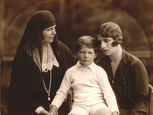 Queen Marie of Romania with Queen Mother Helen and King Michael.